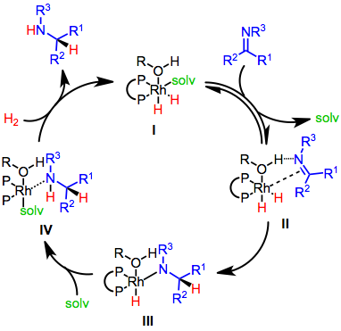 Enantioselective hydrogenation of imines: mechanism of rhodium catalysts